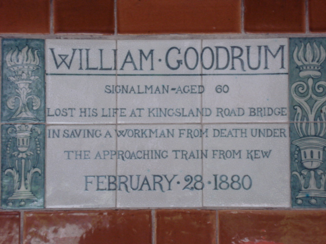 Memorial in Postman's Park, London